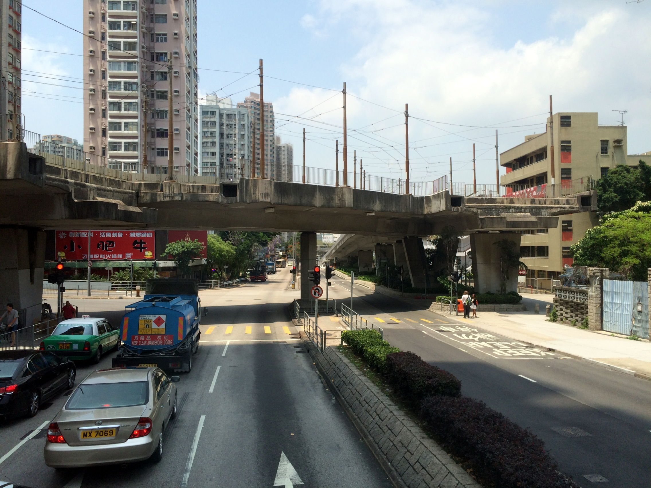 Tuen Mun LRT Pui To Station Reserved Joint